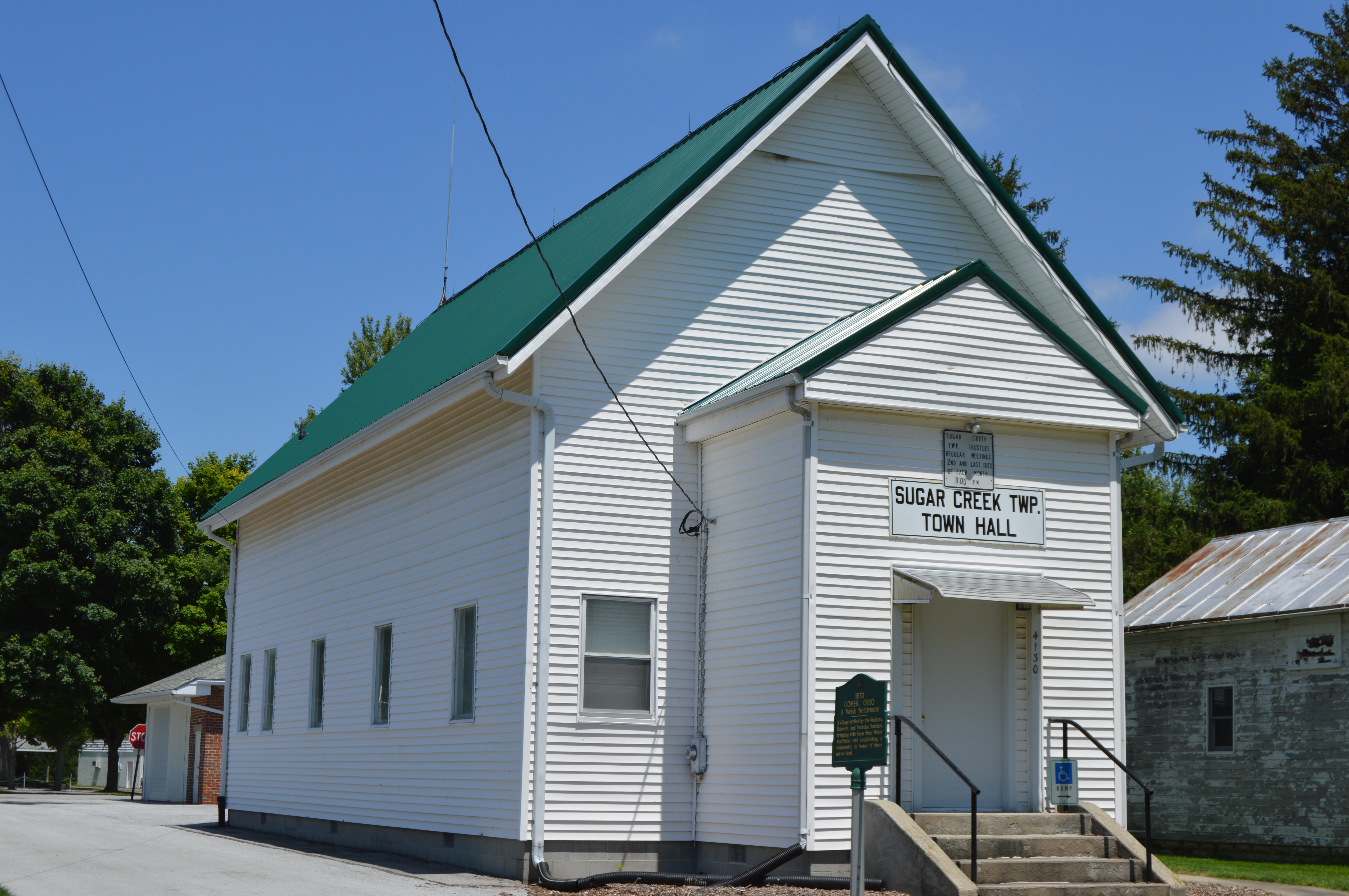 Front and western side of the Sugar Creek Township hall, located at 4130 Lincoln Highway in Gomer, Ohio, United States.